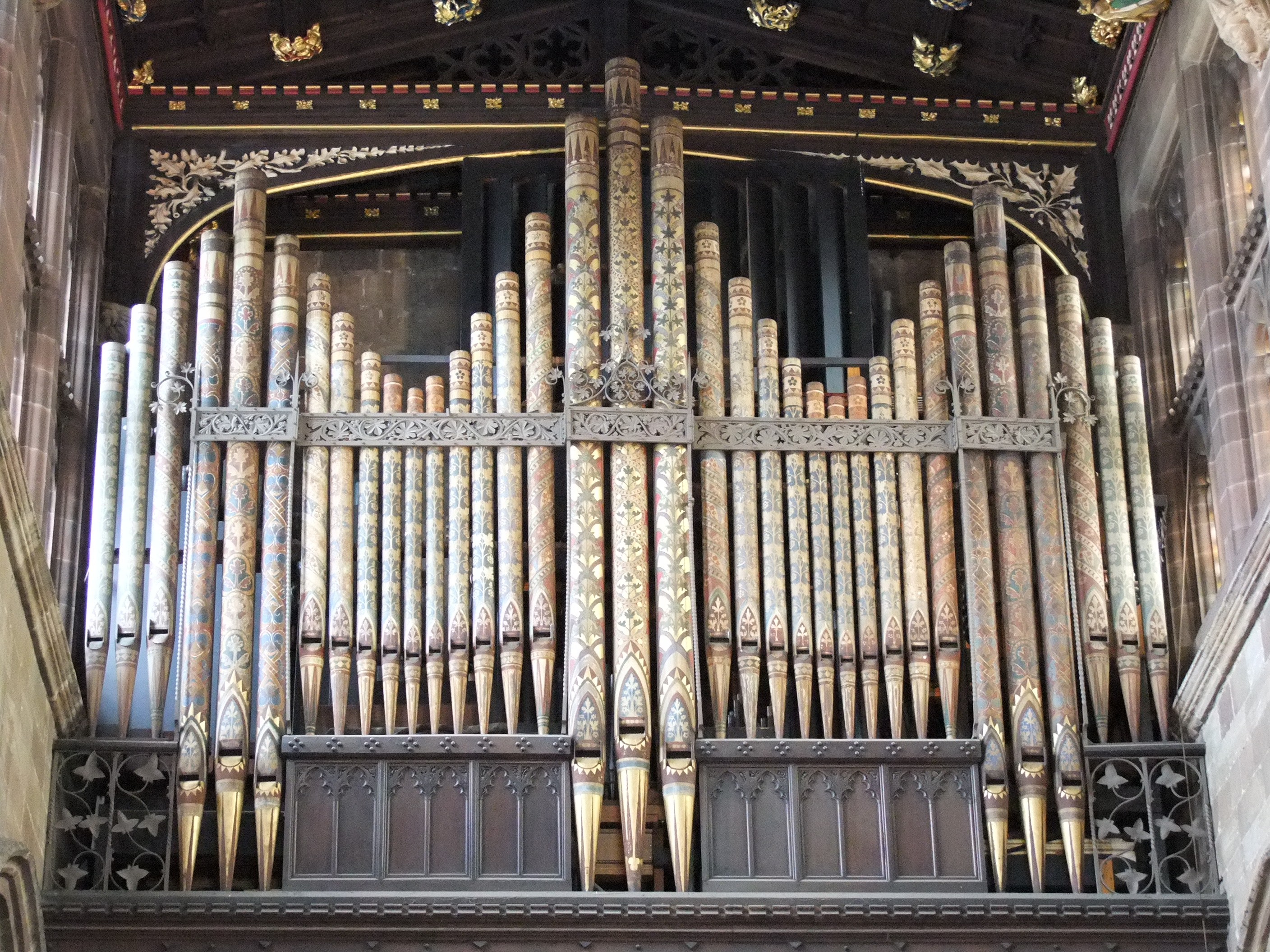 Organ in the St Peter's Collegiate Church, Wolverhampton